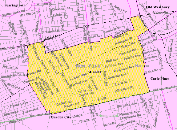 U.S. Census 2000 reference map for Mineola